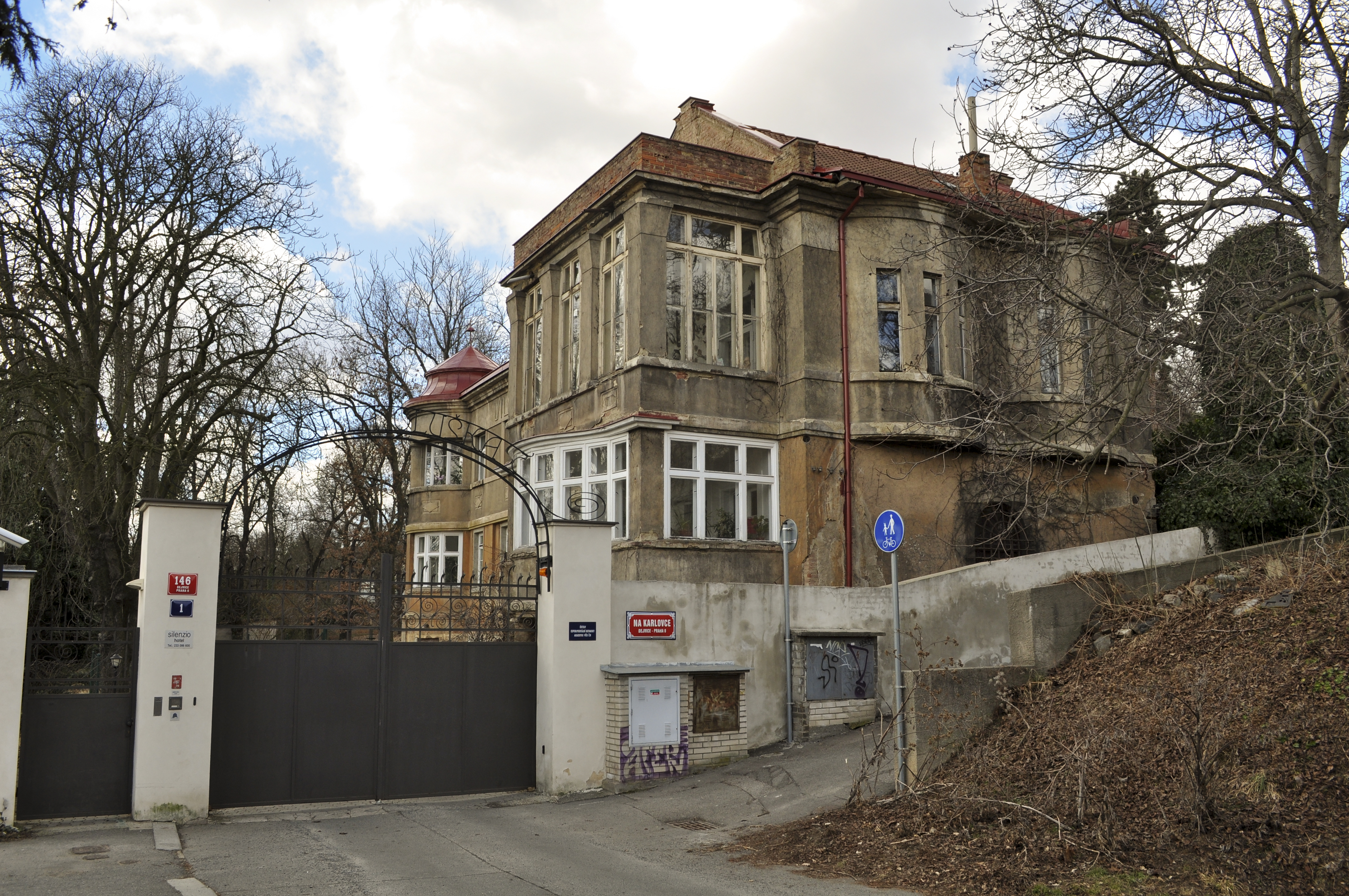 Villa Oluška